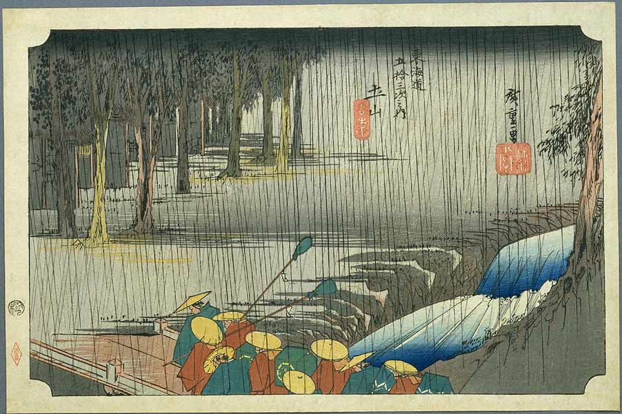 Tsuchiyama on the Tokaido, ukiyo-e prints by Hiroshige